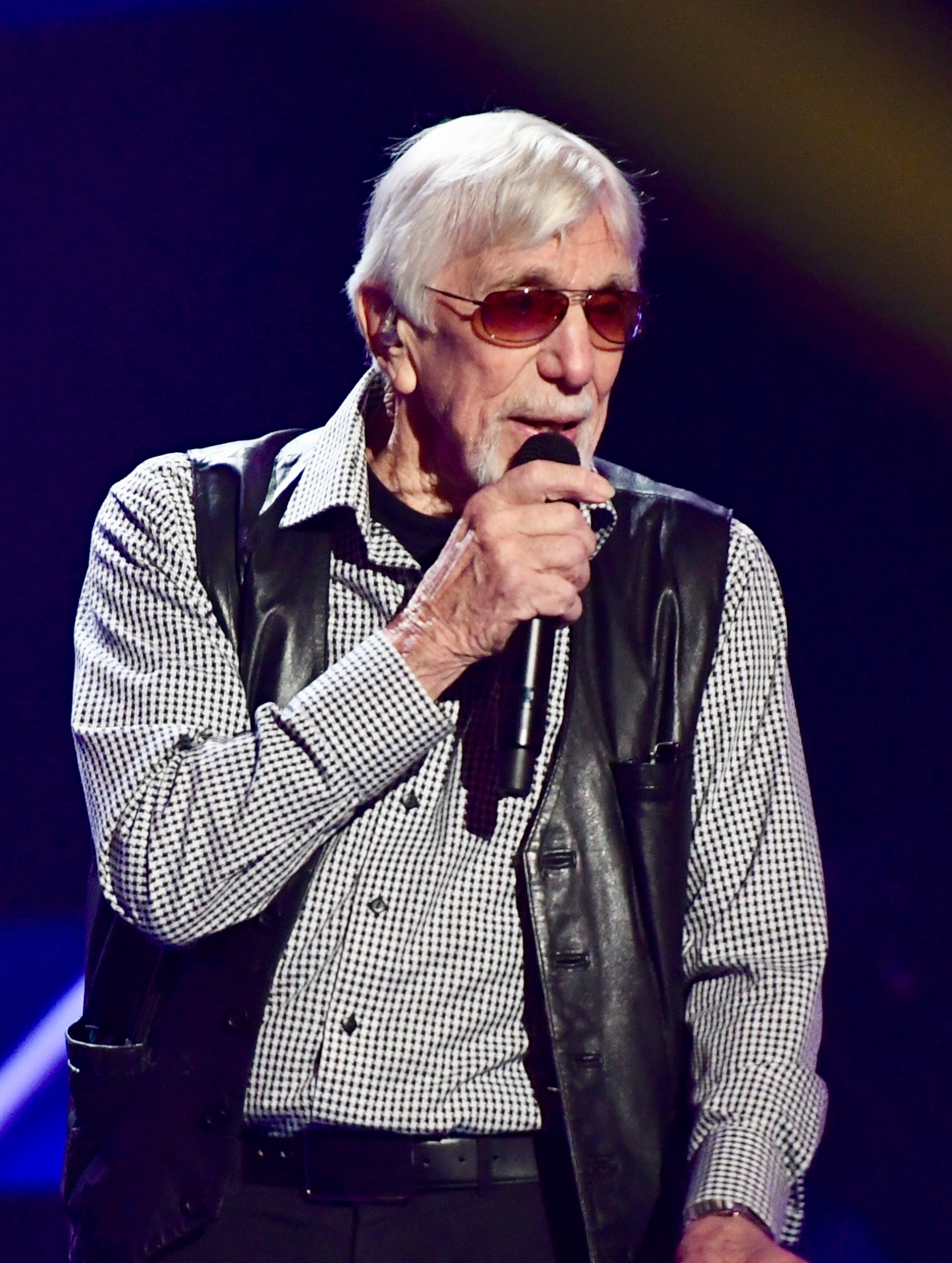 Owe Thörnqvist @ Melodifestivalen 2017